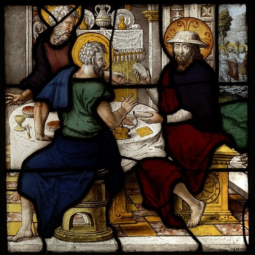 Supper at Emmaus, stained glass from near Cologne